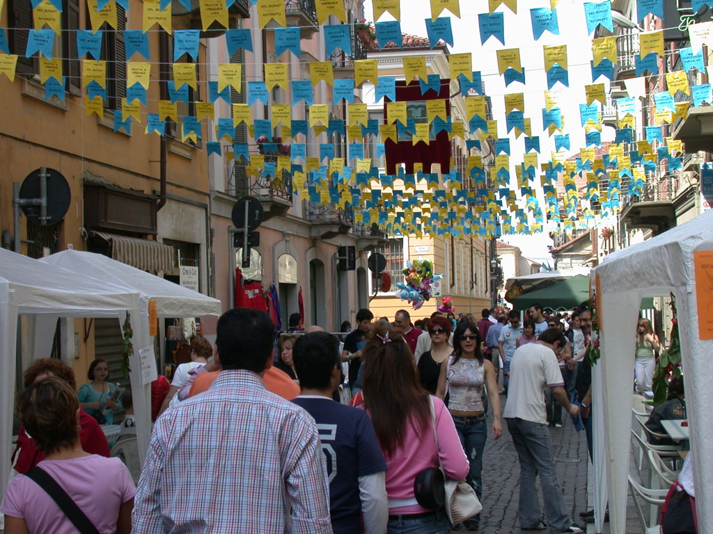 Alessandria, Piemonte, Italiayellow and blue